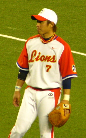 Yasuyuki Kataoka, infielder of the Saitama Seibu Lions, at Seibu Dome.